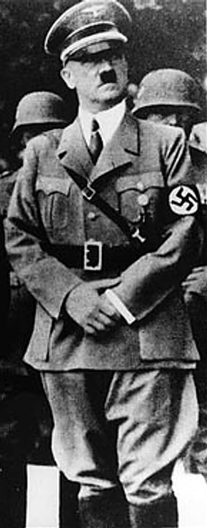 Adolf Hitler on an reviewing stand during a official visit to occupied Yugoslavia